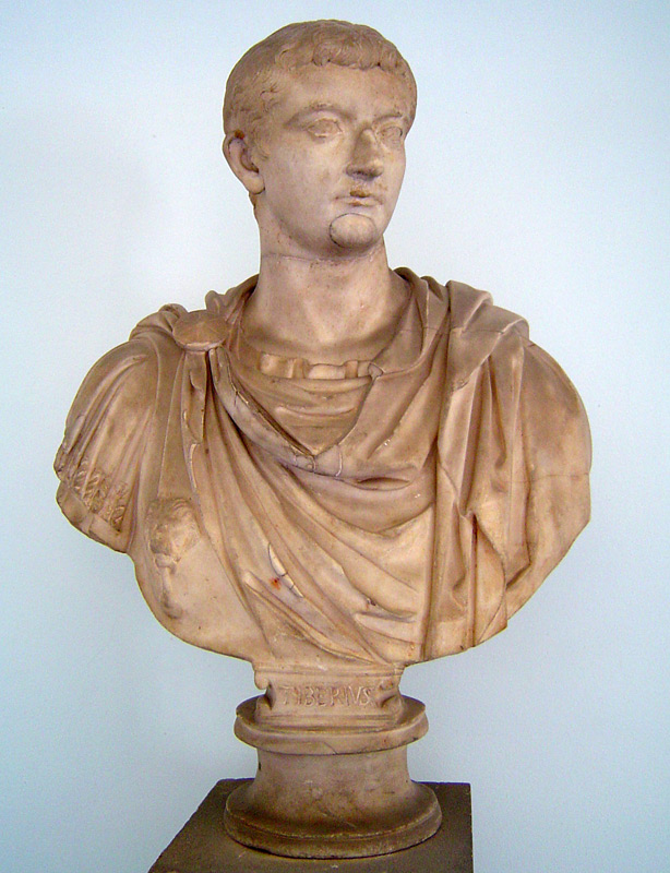 Bust of the Roman Emperor Tiberius. On display at the Museo Archaeologico Regionale, Palermo, Sicily.